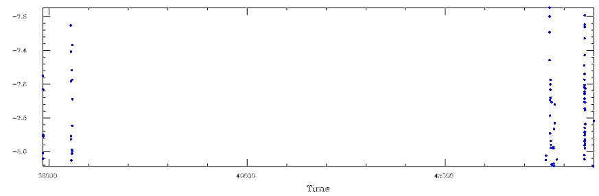 TU Cas data plotted versus real time